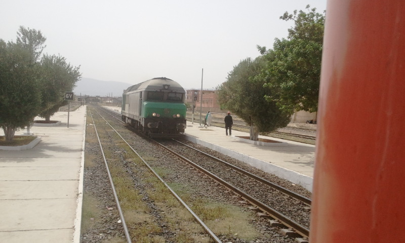 Changing direction of Nador-Fes train at Taoririt station, locomotive moved to other end of train